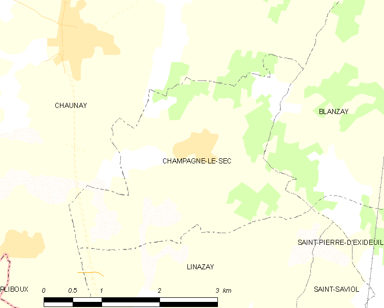 Map of French municipality Champagné-le-Sec